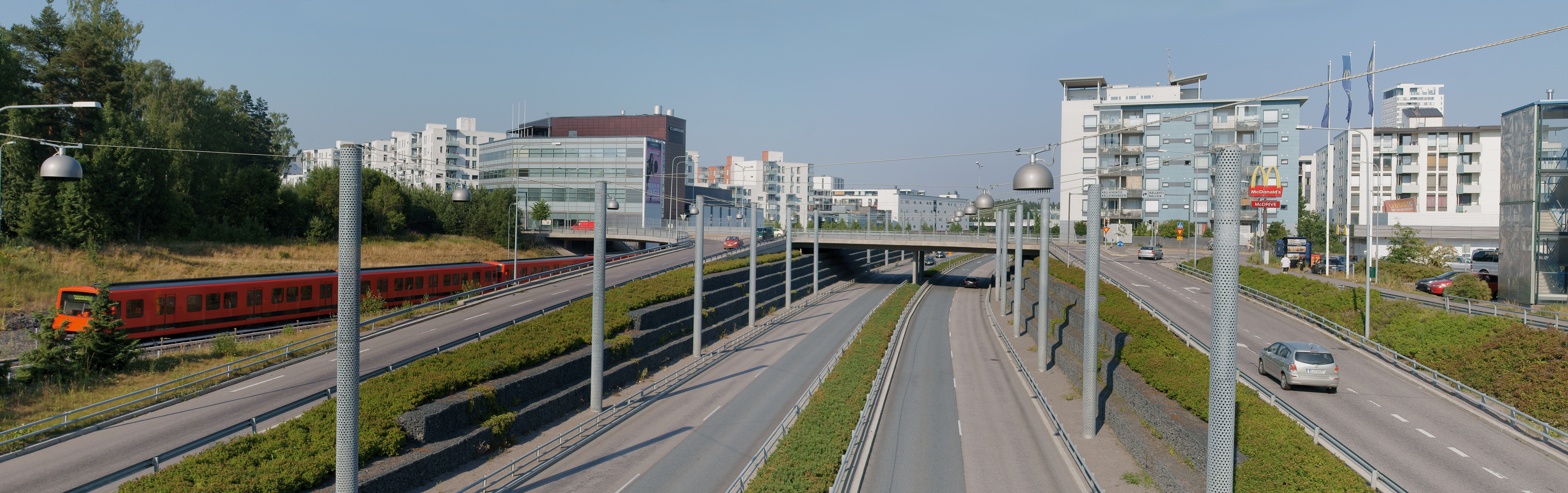 Panorama of Street Vuotie in Rastila, Helsinki.